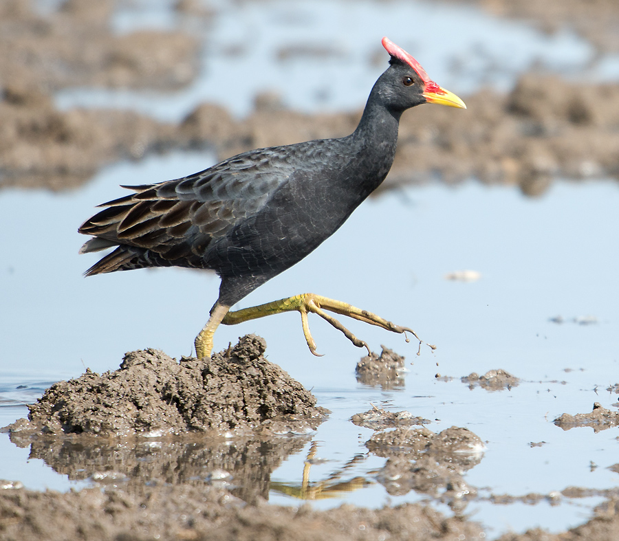 A male Watercock at Basai Wetlands, near Gurgaon, Haryana, India.